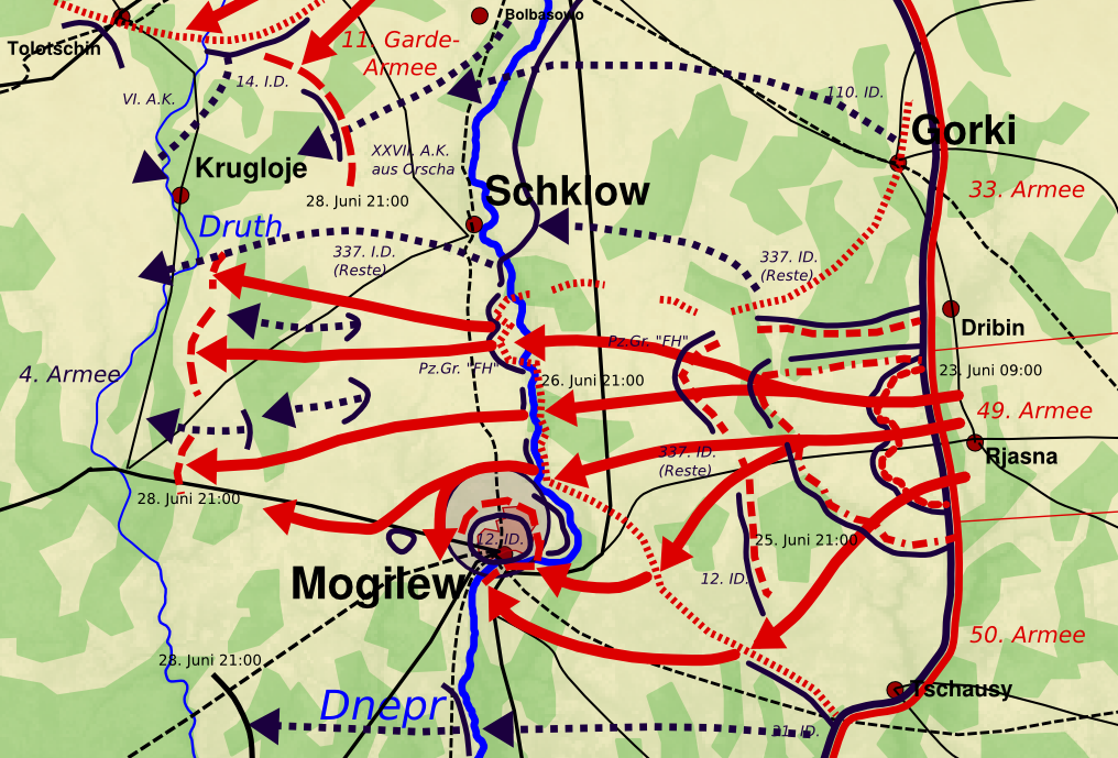 battle of mogilev, development june 23-28 1944